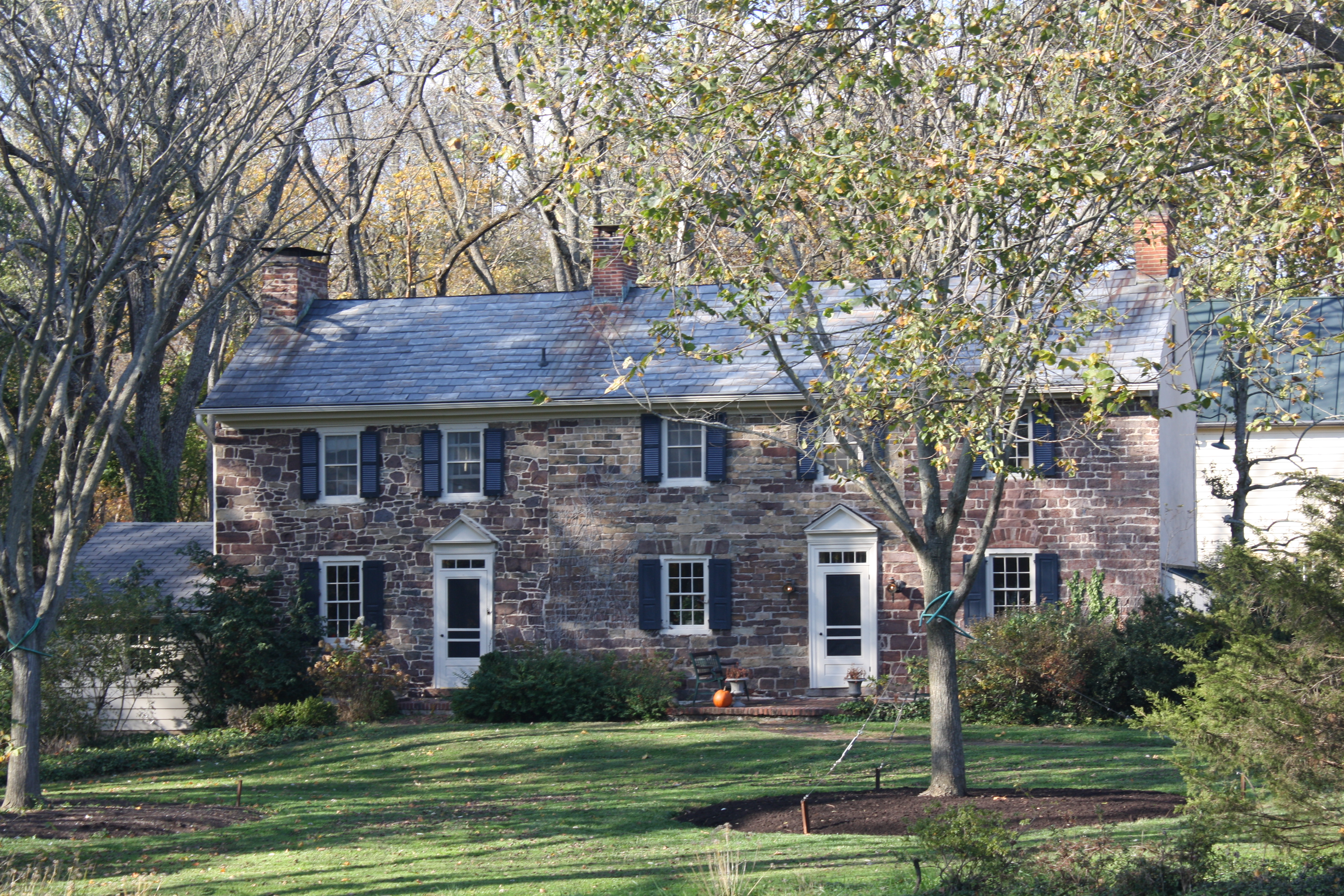 Gen. John Lacey Homestead is a historic home located at Wycombe, Buckingham Township, Bucks County, Pennsylvania. Object location40° 16′ 57″ N, 75° 01′ 15″ W